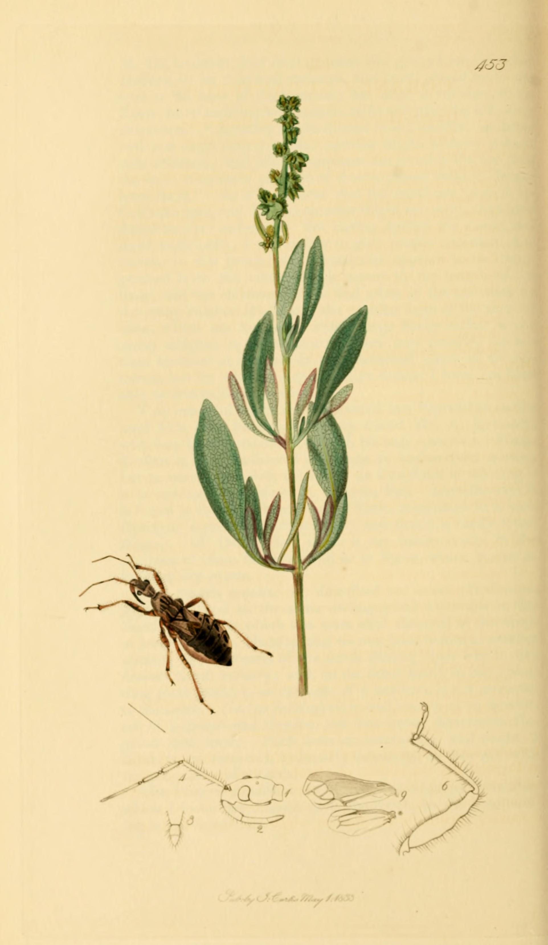 John Curtis British Entomology (1824-1840) Folio 453 Coranus subapterus the Sea-side Reduvius.The plant is Atriplex (Halimione) portulacoides(Shrubby Orache).